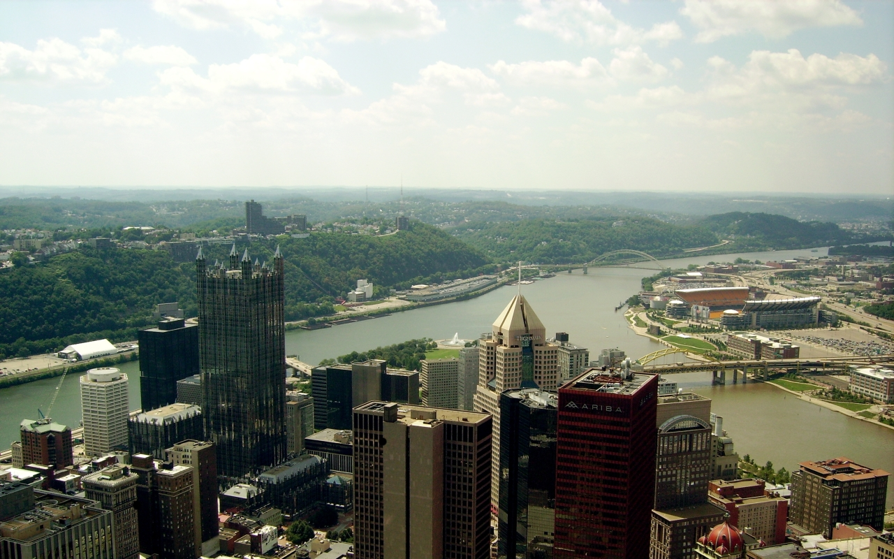 The view facing west from the 62nd (top) floor of the U.S. Steel Tower in downtown Pittsburgh, PA.